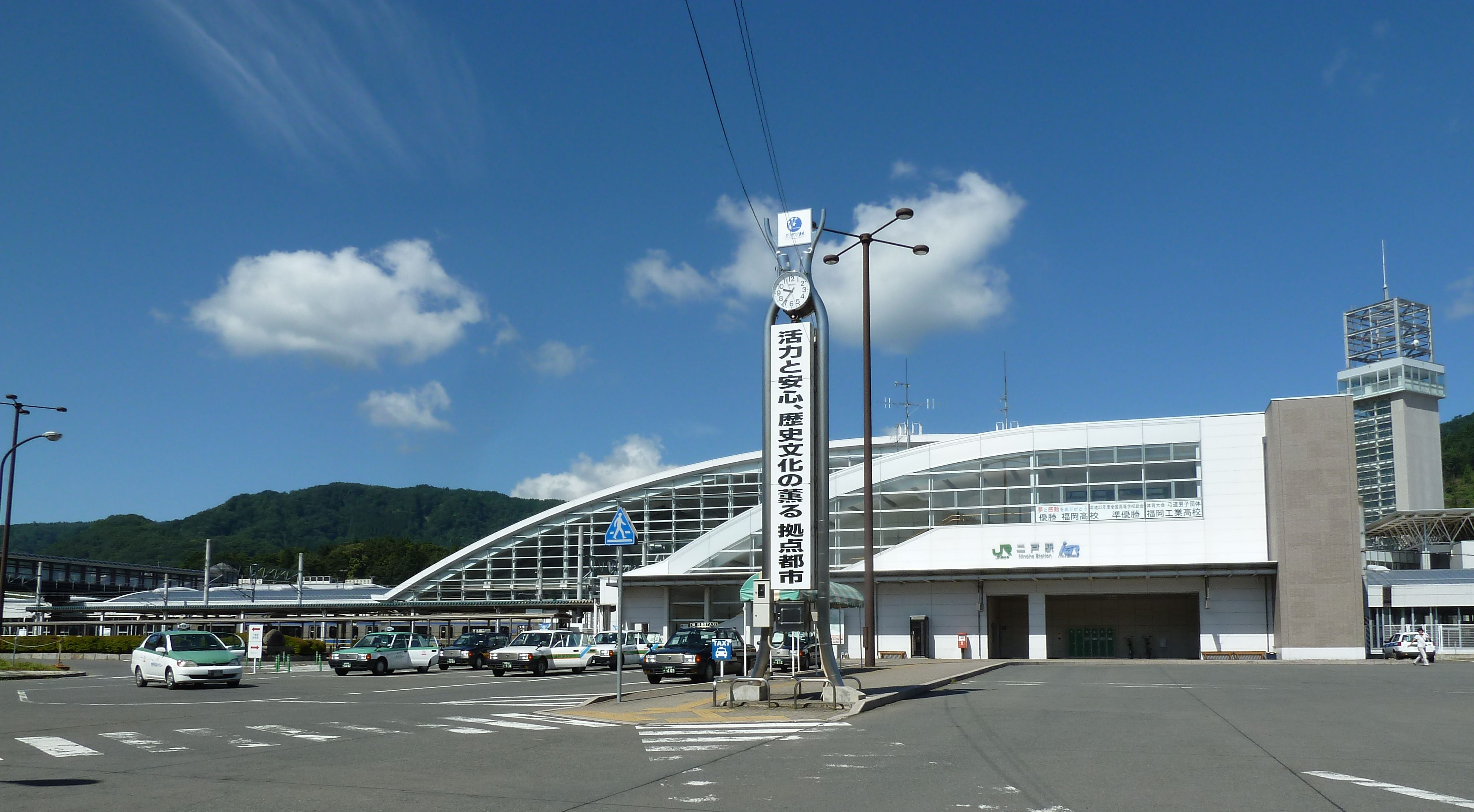 Ninohe Station east side